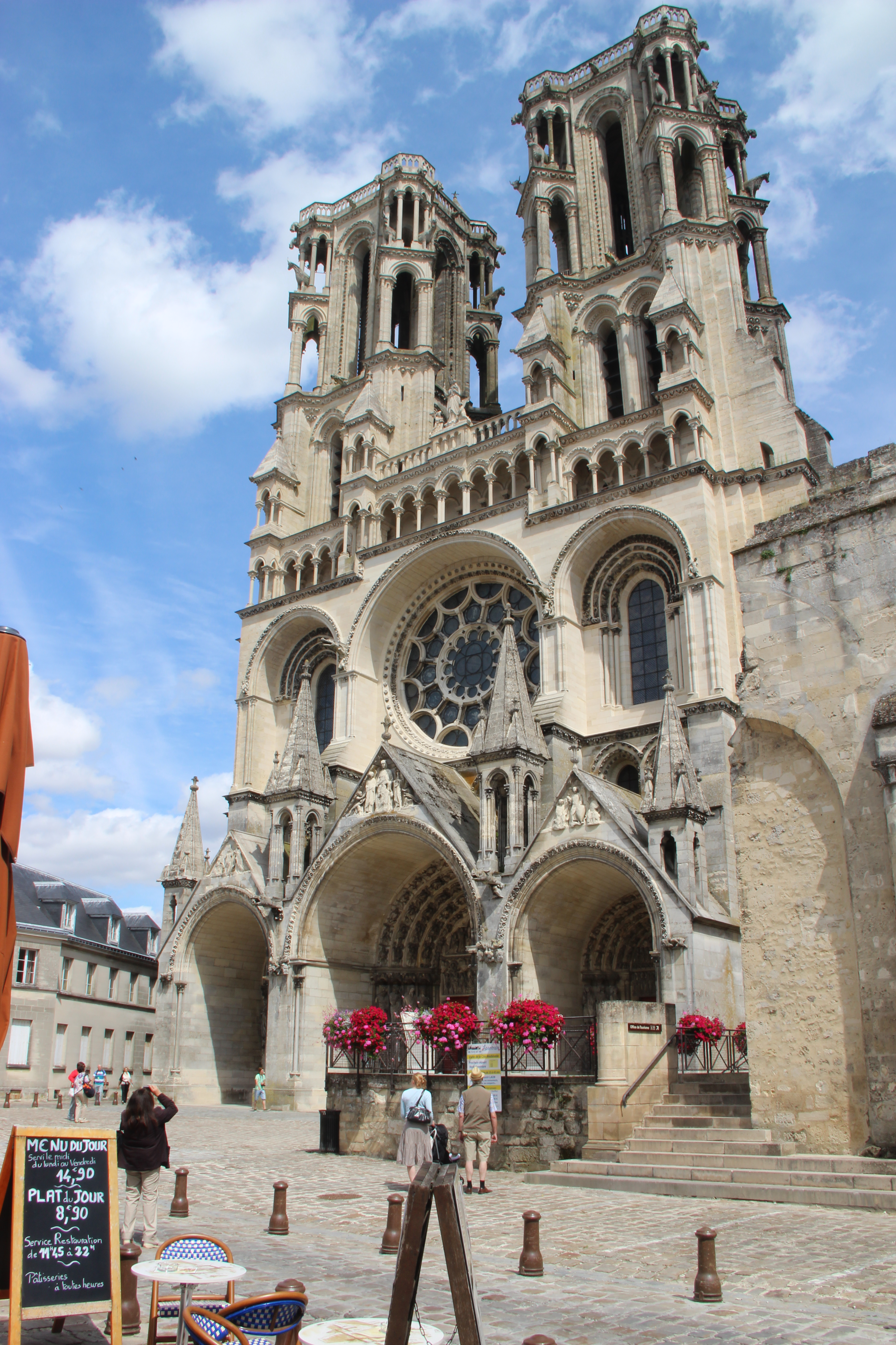 Front face of Laon's cathedral Shoot in 2012